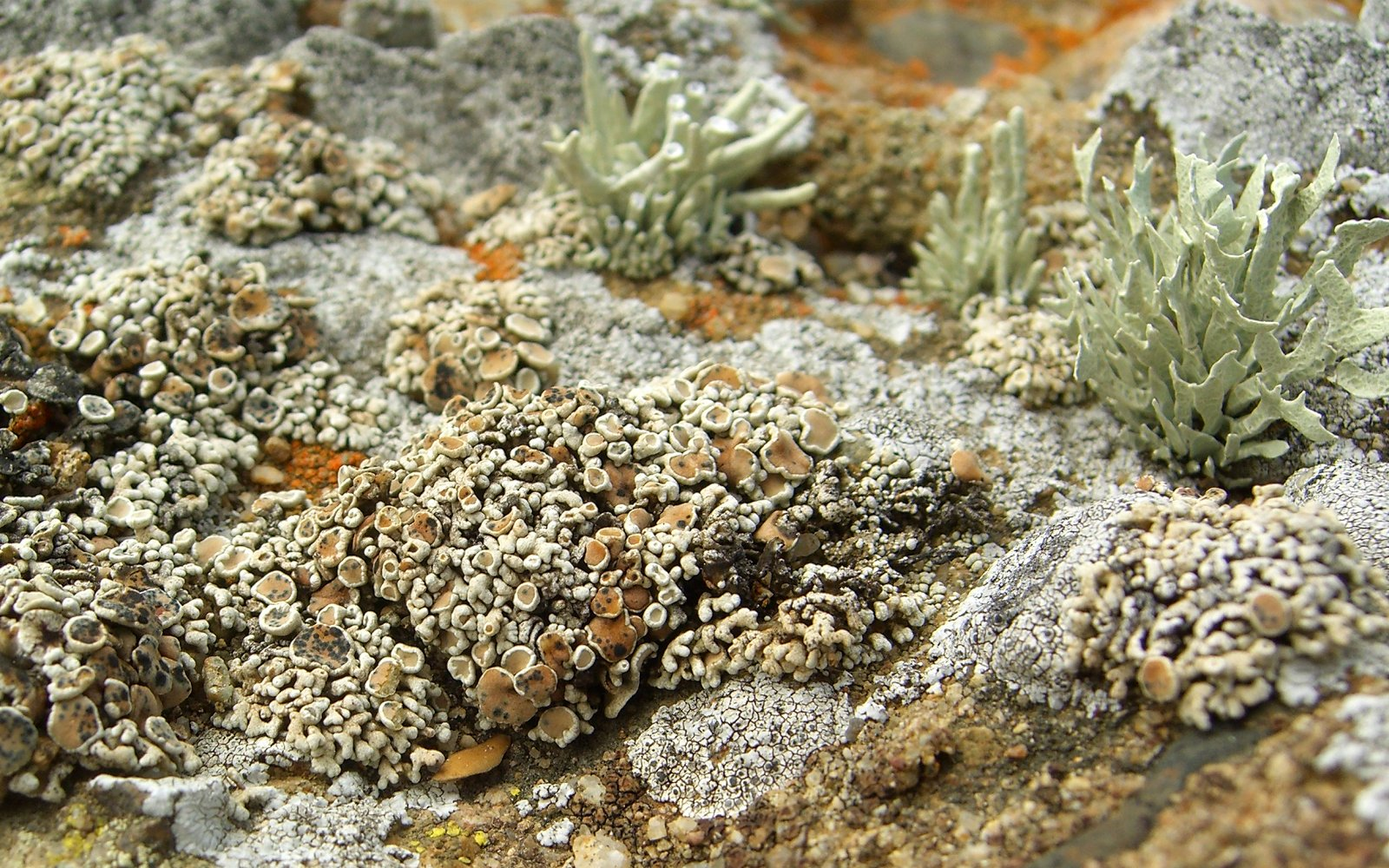 Scientific Name: Niebla homalea (Ach.) Rundel & Bowler Common Name: Armored Fog Lichen Certainty: positive (notes) Location: California; Bay Area; Monterey; Point Lobos SP Date: 20070225